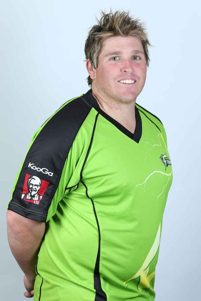 Mark Cosgrove 2012 T20 Bash League Sydney Thunder